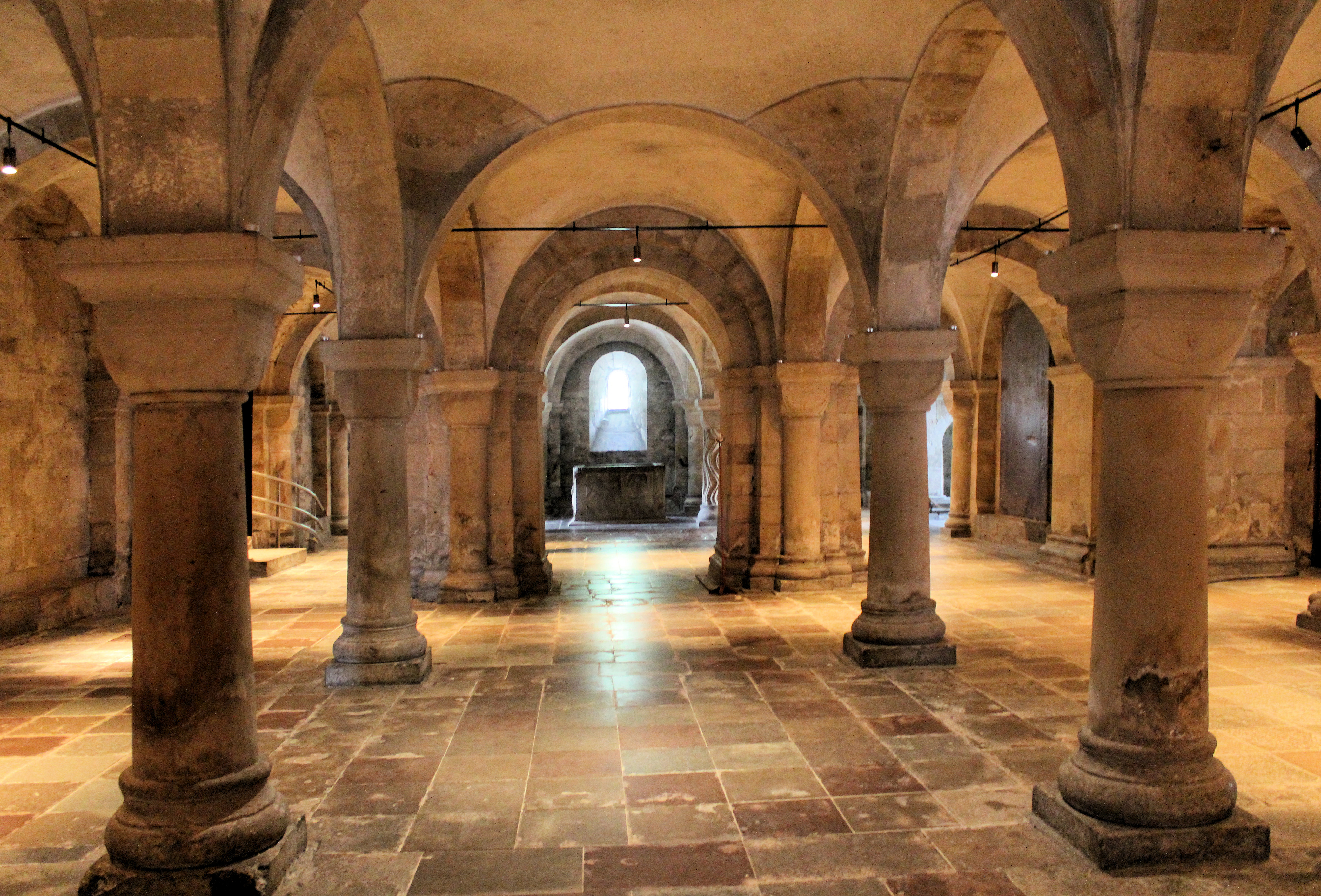 Lund, the cathedral, the crypt